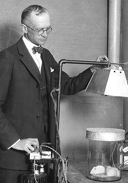 A 1923 picture of Harry Steenbock in his lab.